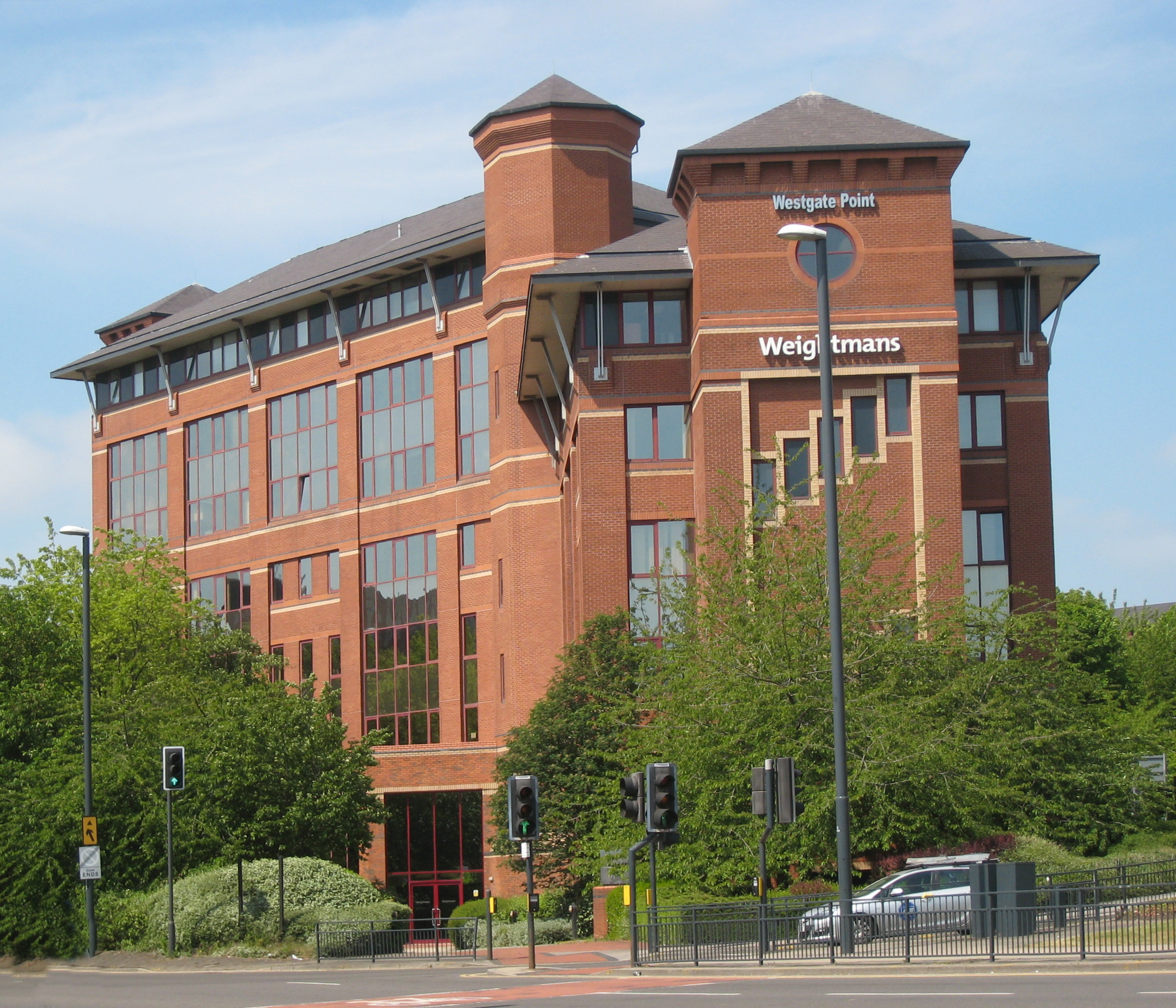 Westgate Point, Leeds LS1 2AX